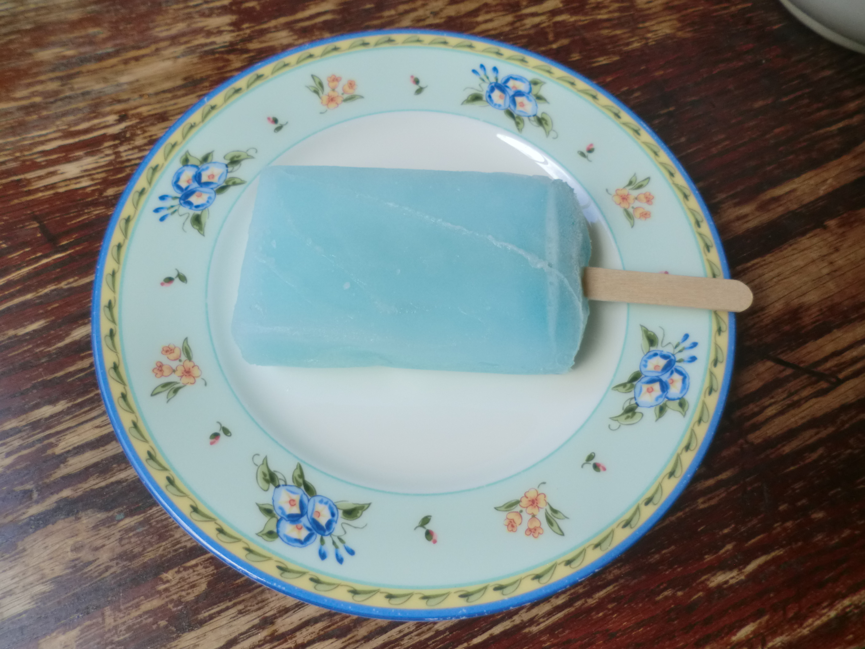 GariGari-kun,Japanese famous ice candy made by AKAGI NYUGYO Co.,Ltd.